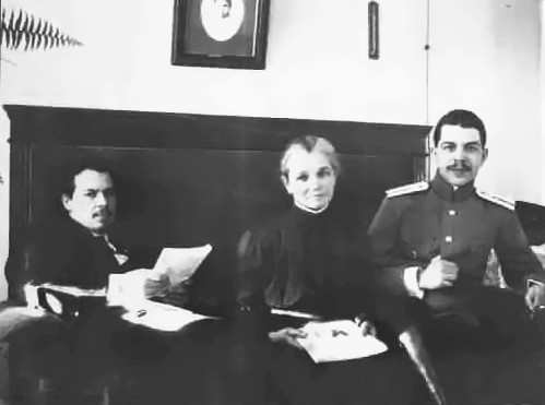 Photo of Nikolay Ivanovich Vavilov (1887-1943), Sergey Ivanovich Vavilov (1891-1951) and their mother Aleksandra Mikhailovna